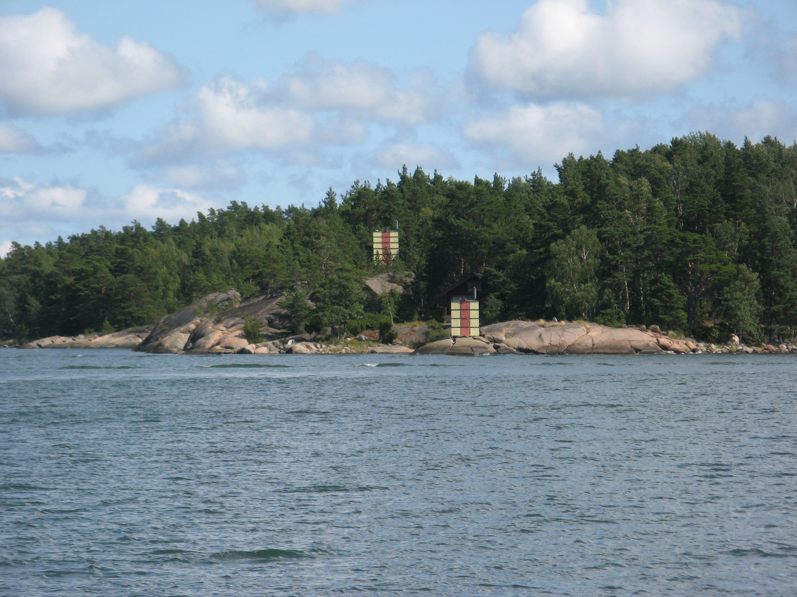 Leading line in the Finnish archipelago, between Houtskär and Korpo in the Archipelago Sea. Note the solar panels used to fuel the lights.